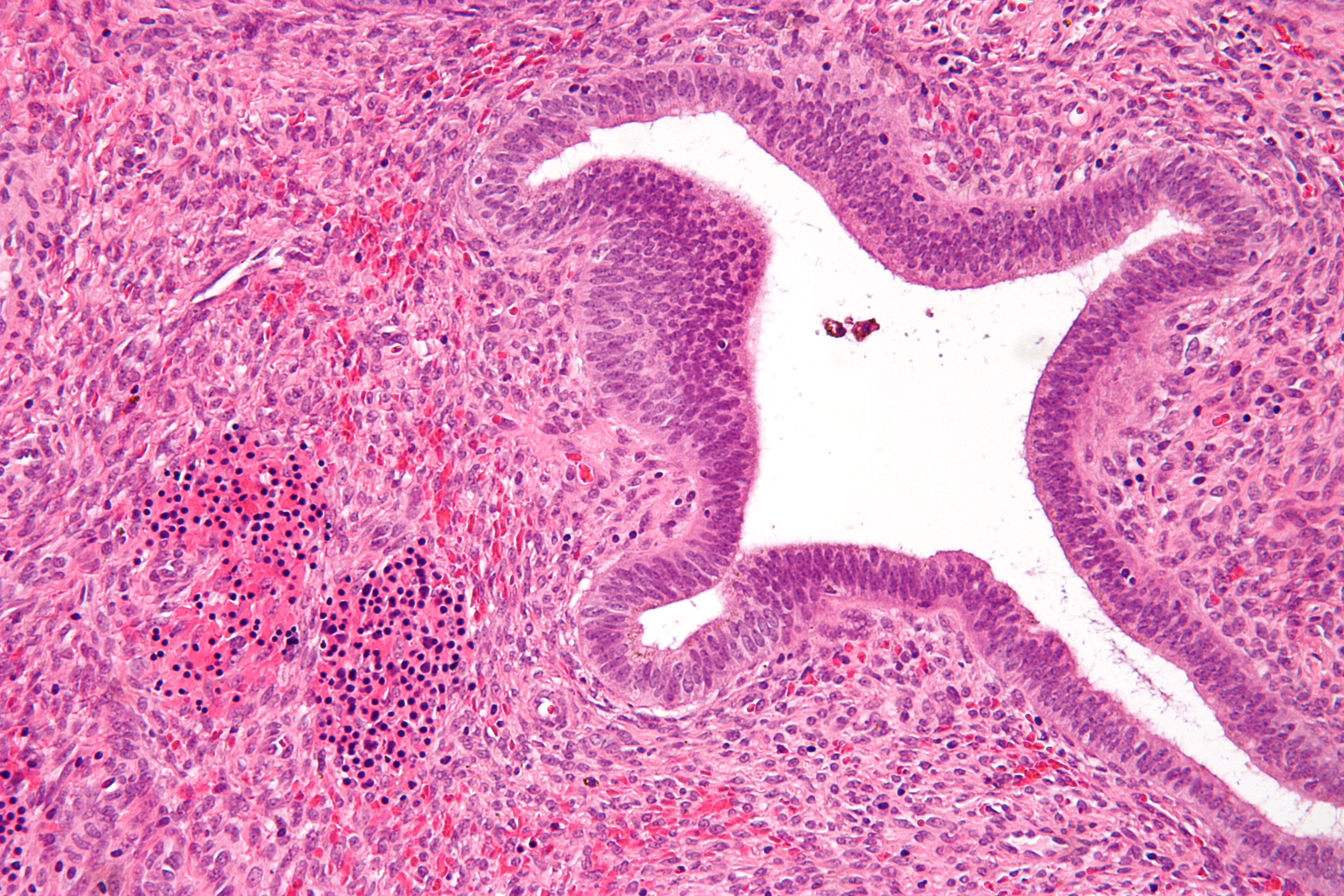 High magnification micrograph showing nucleated red blood cells, as may be seen in extramedullary haematopoiesis, in an endometrial polyp. H&E stain. Related images Low mag. Intermed. mag.